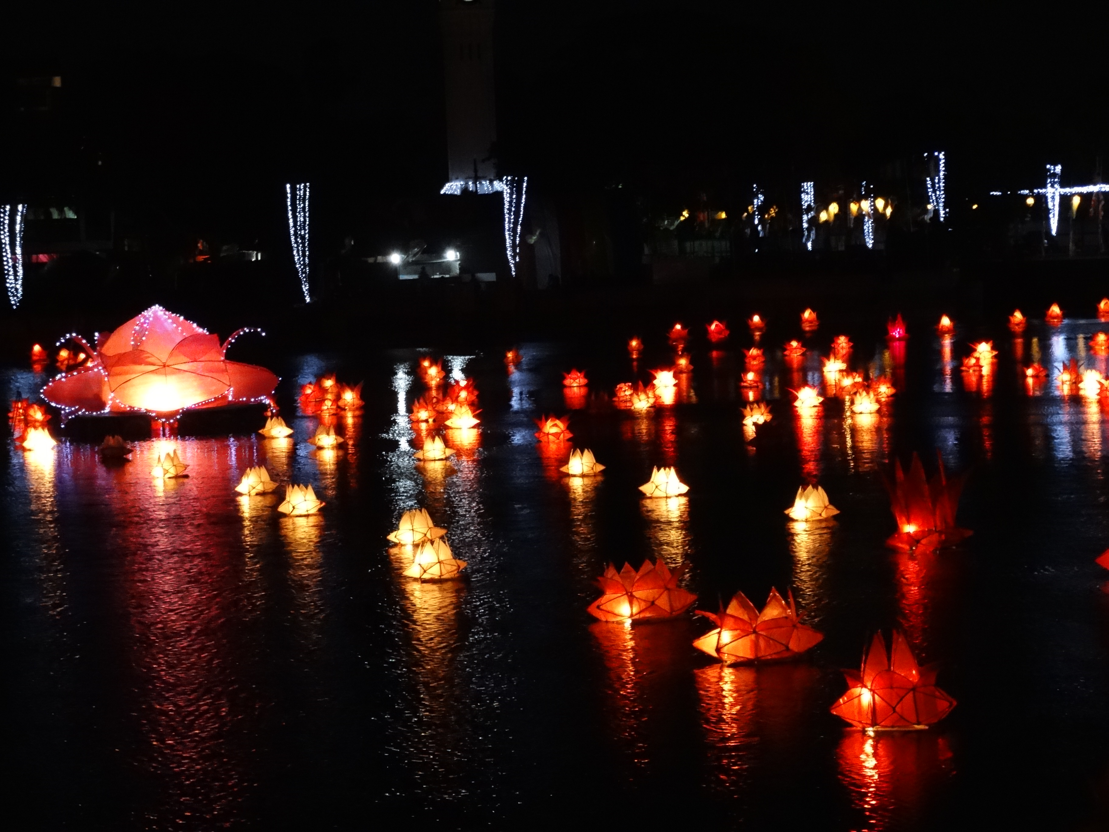 Festive Adornments on Lake for Buddha's Birthday - Jaffna - Sri Lanka